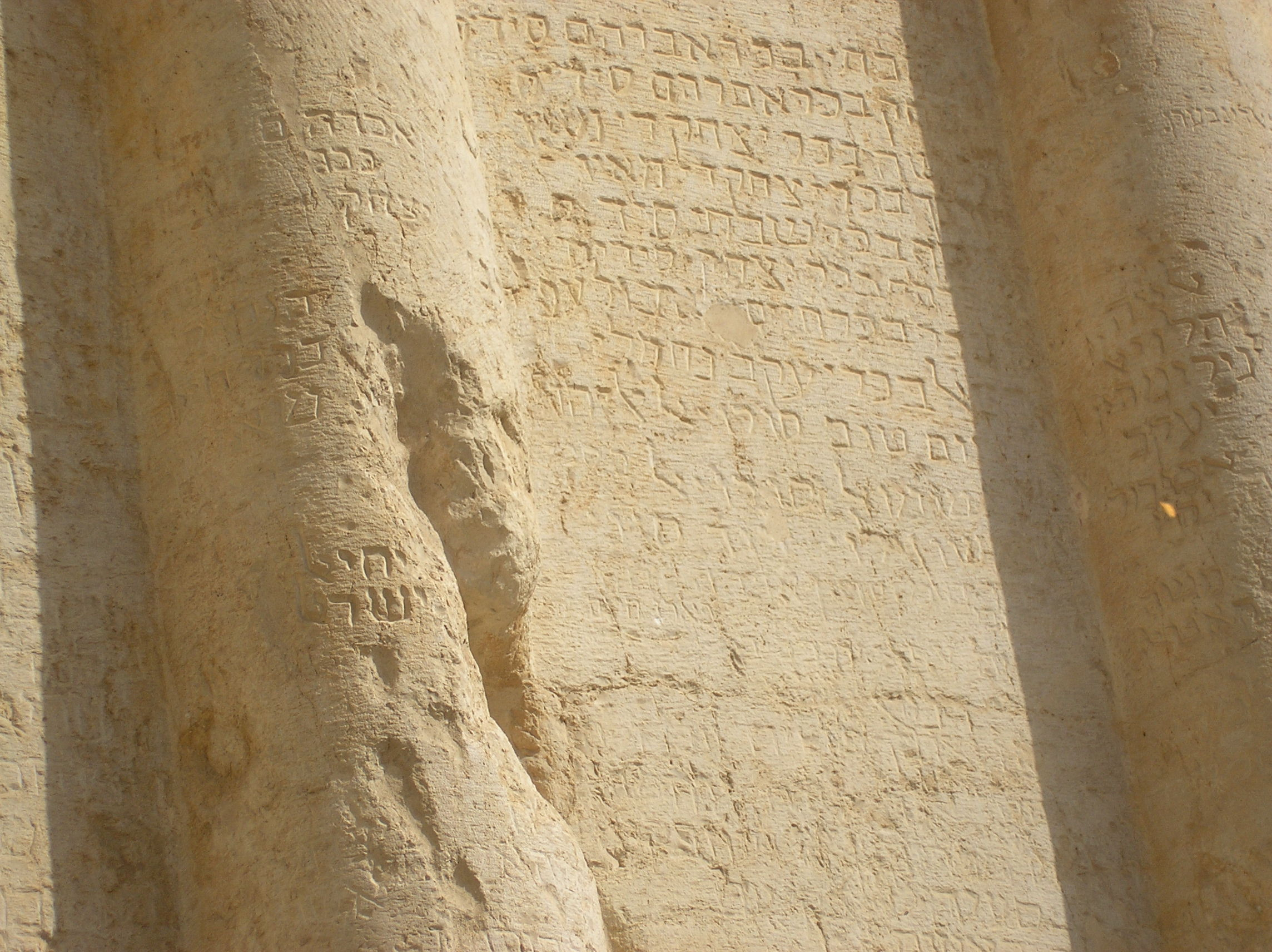 Tomb of Zechariah